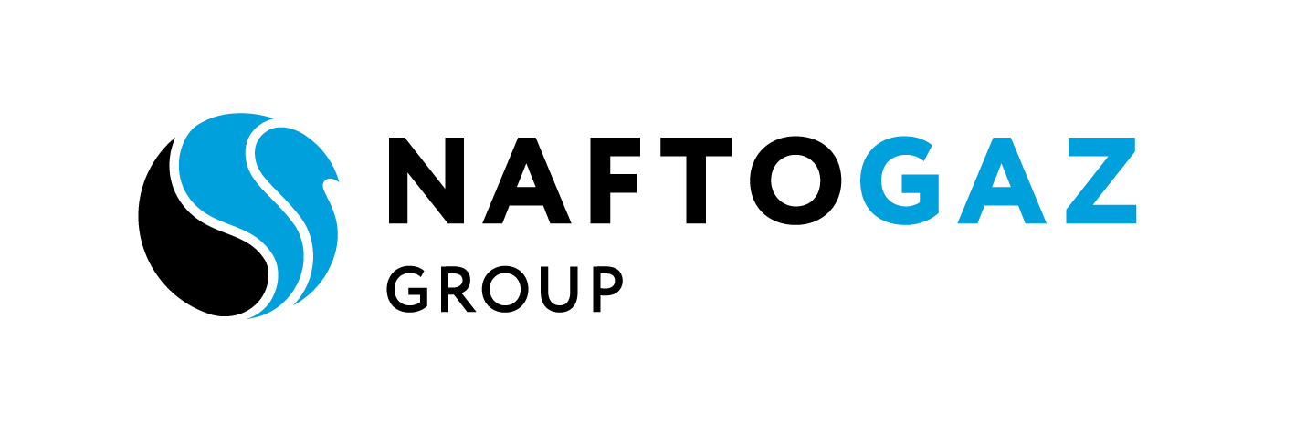 Logo of brandbook